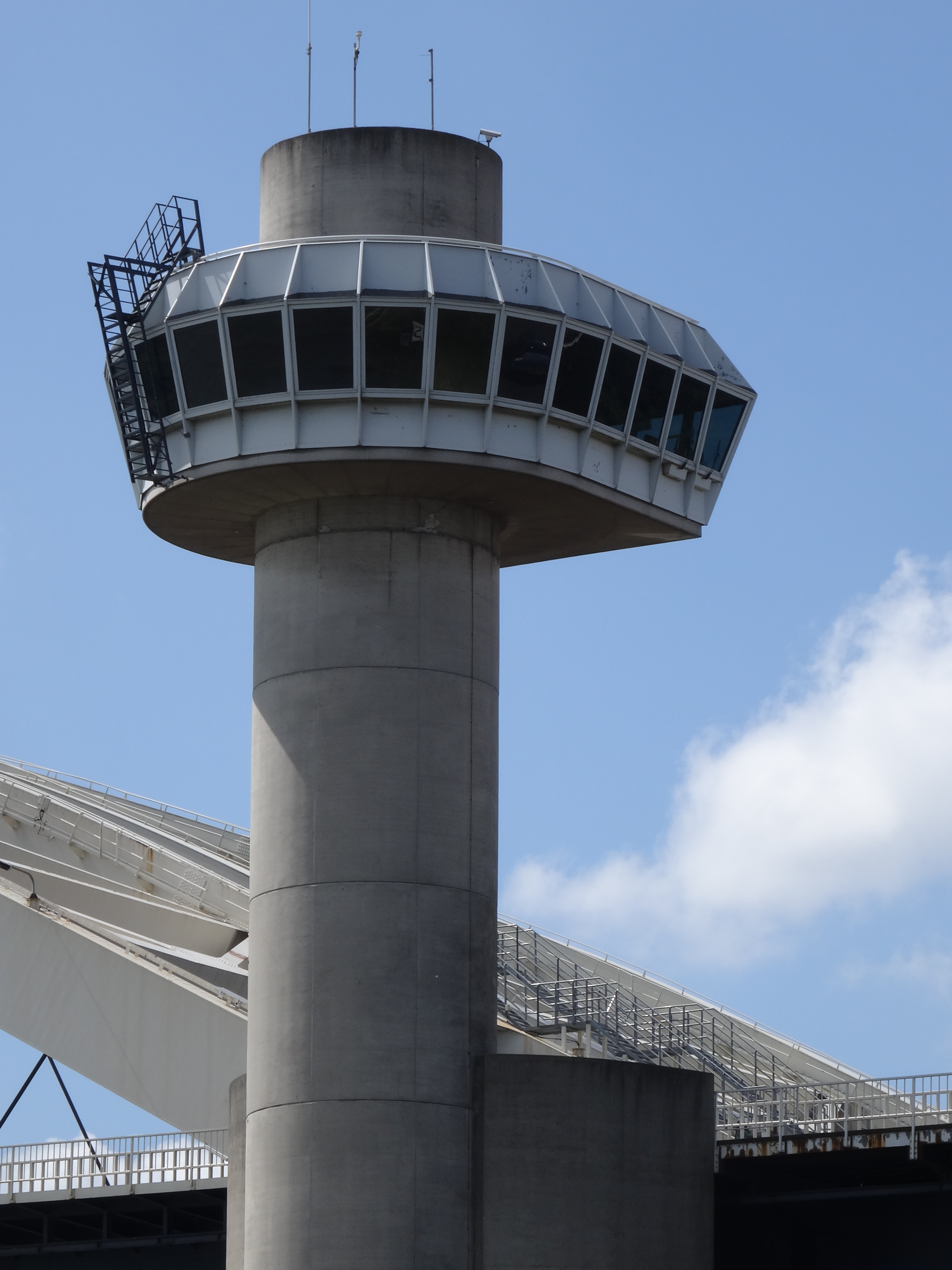 Van Brienenoordbrug - Rotterdam - Bridge operator's house from the east